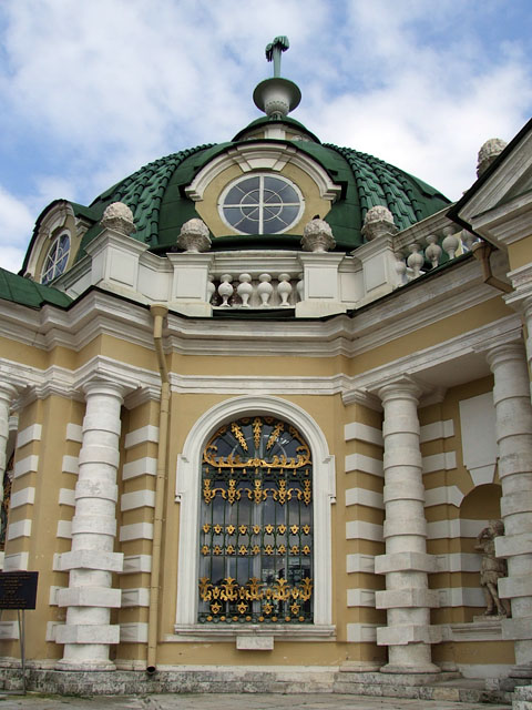 Kuskovo. Moscow.